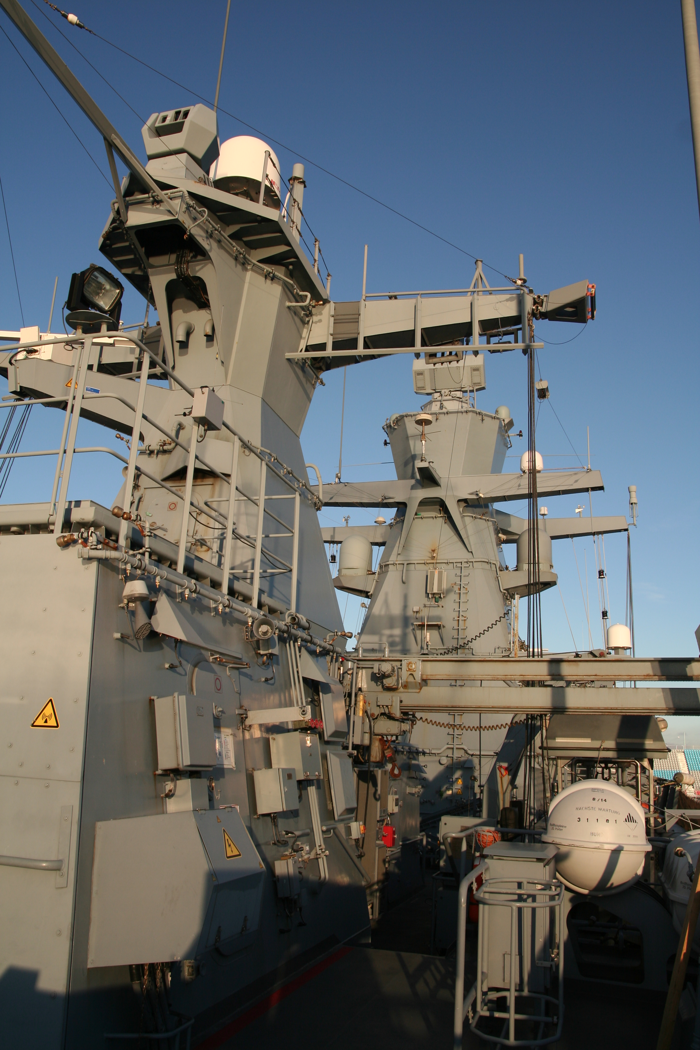 The masts of F260 Braunschweig, seen from the back (aft mast next to camera).